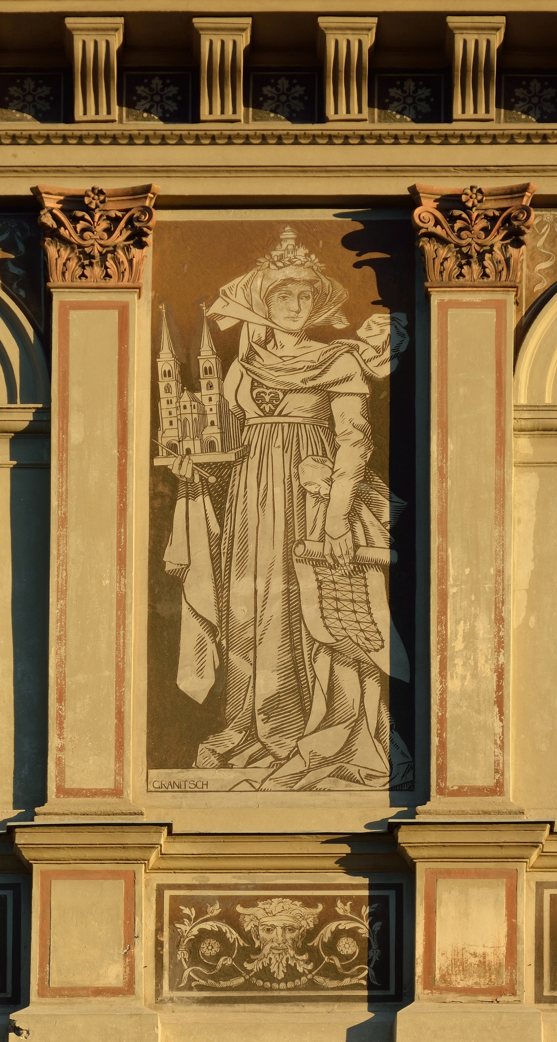 Third image from the left of the six pieces of mural art above the entrance of the Museum of Applied Arts, Vienna